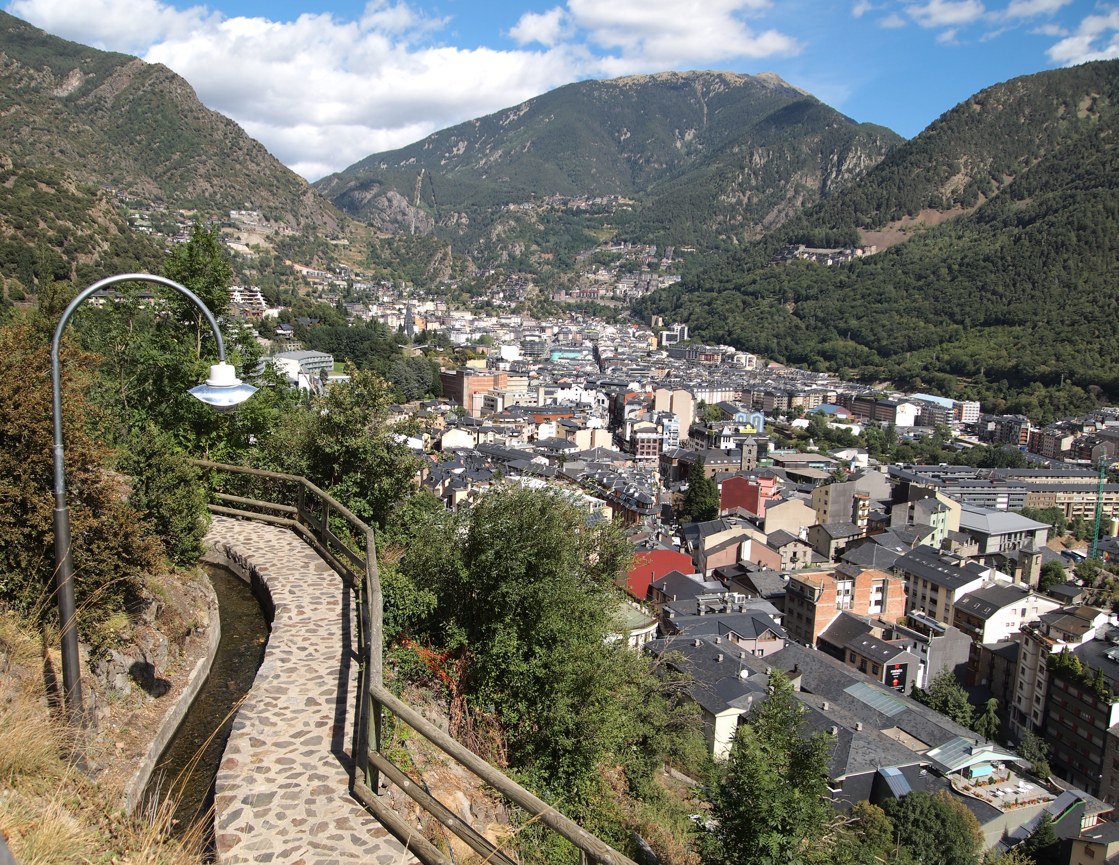 Footpath and view to city of Andorra la Vella. This photograph was taken with an Olympus E-PL1